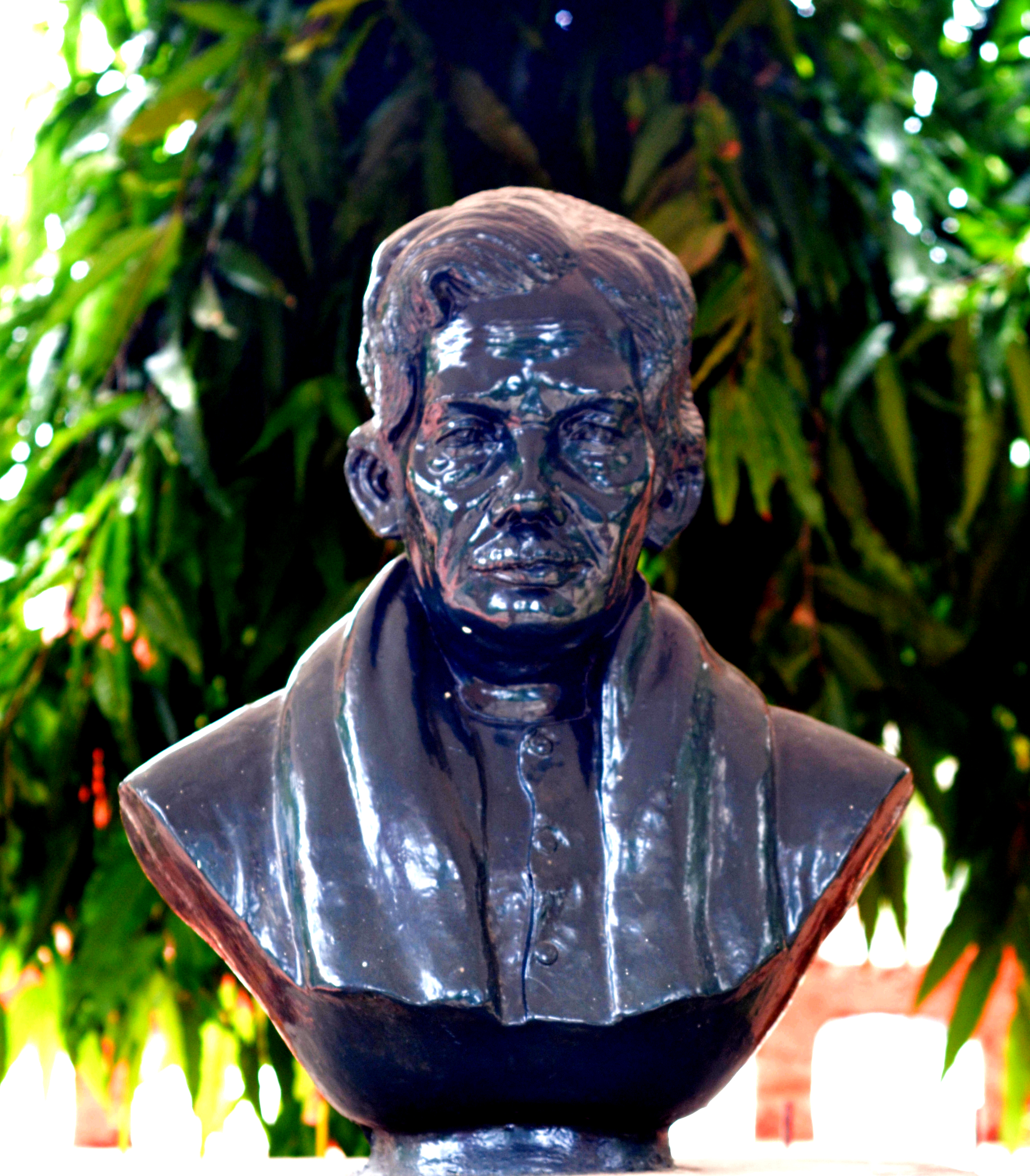 Raghunath Murmu (1905-1982). Stone idol in Odisha Tribal Development Society (OTDS), Bhubaneswar office. Murmu was the first person to start the Ol Chiki alphabet to write Santali language. ଓଡ଼ିଆ: ରଘୁନାଥ ମୁର୍ମୁ (୧୯୦୫-`୧୯୮୨) । ଭୁବନେଶ୍ୱରରସ୍ଥିତ ଓଡ଼ିଶା ଆଦିବାସୀ ବିକାଶ ସମିତି (ଓଟିଡିଏସ) ପରିସରରେ ଥିବା ଆବକ୍ଷ ପଥର ମୂର୍ତ୍ତି । ରଘୁନାଥ ମୁର୍ମୁ ସାନ୍ତାଳୀ ଲିପି ଅଲ ଚିକି ଆରମ୍ଭ କରିଥିଲେ ।